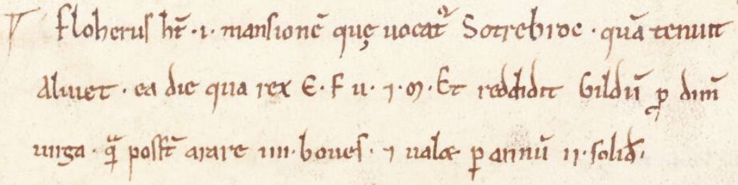 Exon Domesday Book entry for the manor of Sotrebroc (later known as Floyer Hayes), held by Flohere. Entry number: 459a3. Latin entry: Floherus habet i mansionem quae vocatur Sotrebroc quam tenuit Aluiet ea die qua rex Eduuardus fuit vivus et mortuus et reddidit gildum pro dimidia virga. quam possunt arare iiii boves et valet per annum ii solidos (translated as: "Flohere has 1 estate which is called ‘Shutbrook’, which Ælfgeat held on the day that King Edward was alive and dead, and it paid geld for half a virgate. 4 oxen can plough this and it is worth 2 shillings a year.")